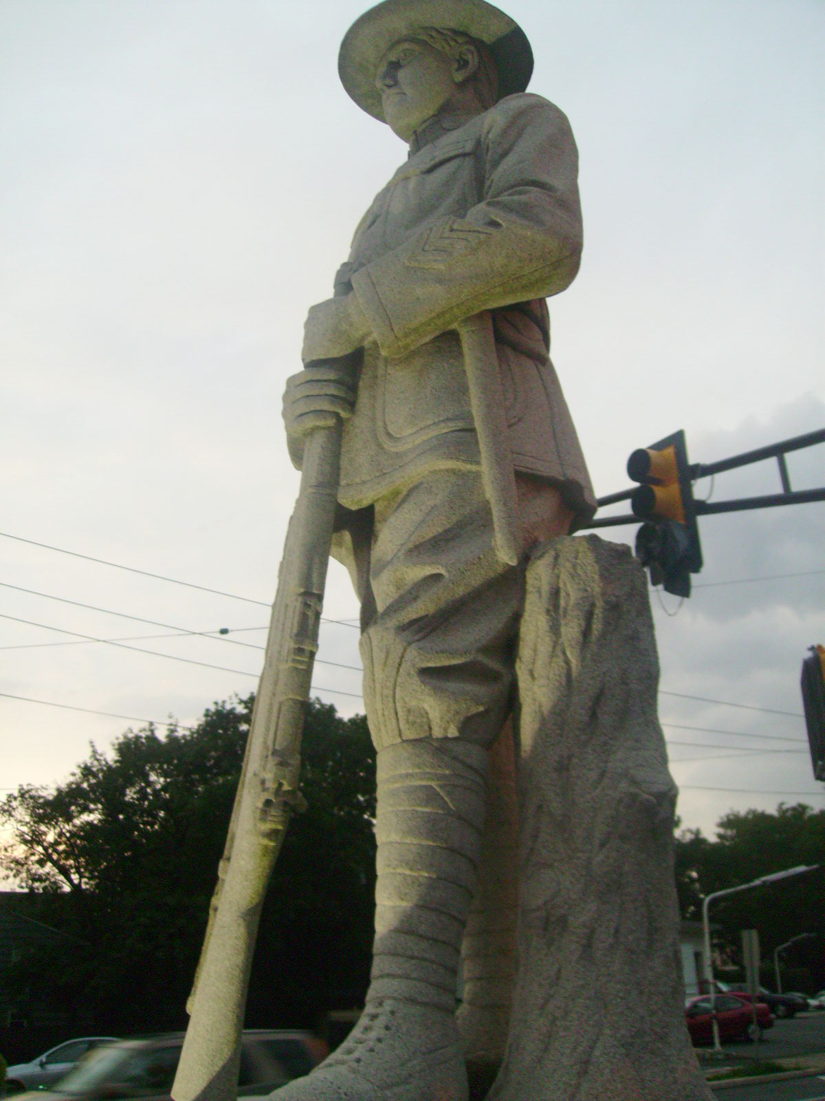 The 1910s statue of a World War 1 Doughboy in Highland Park, New Jersey.